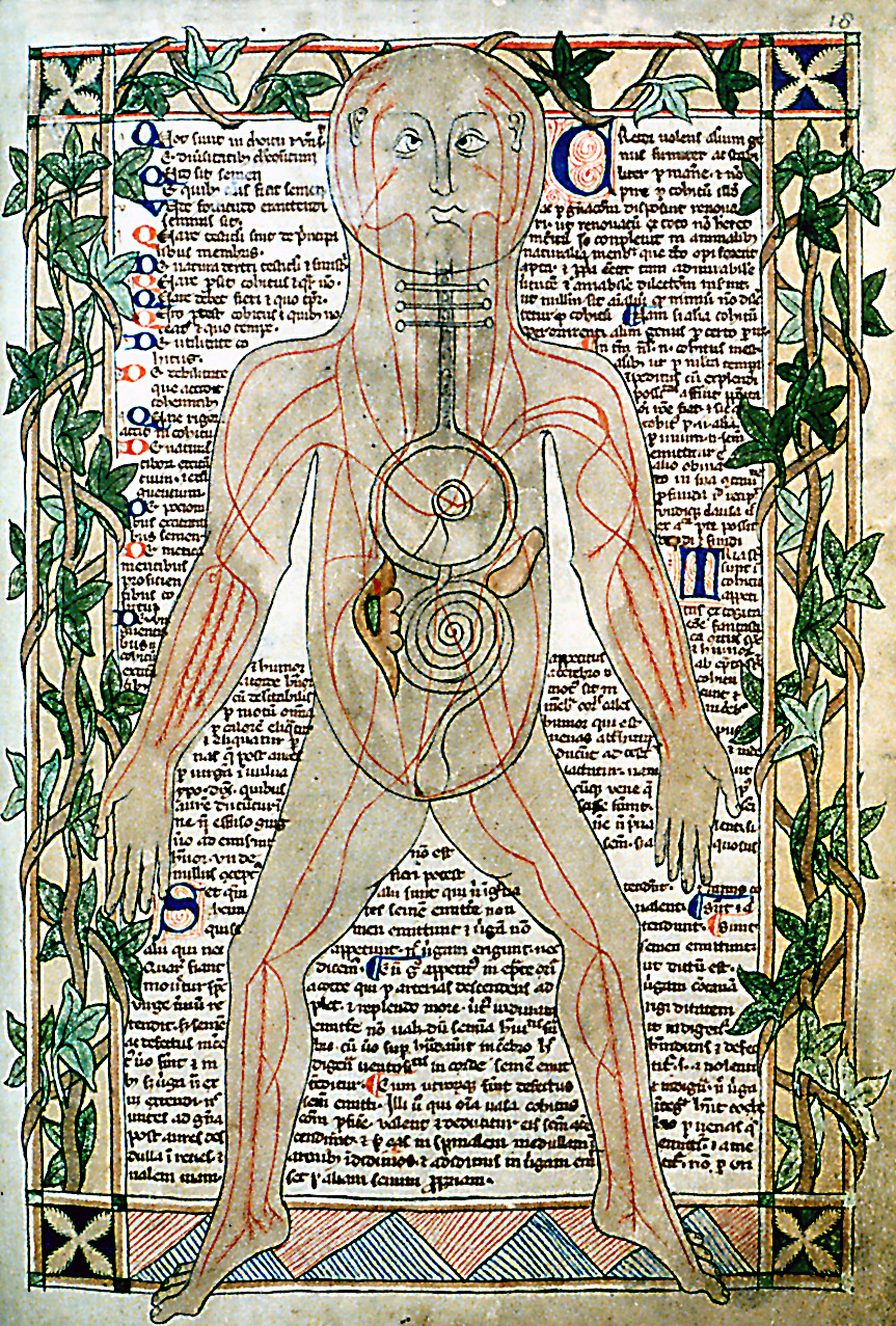 Anatomical illustration showing the veins.